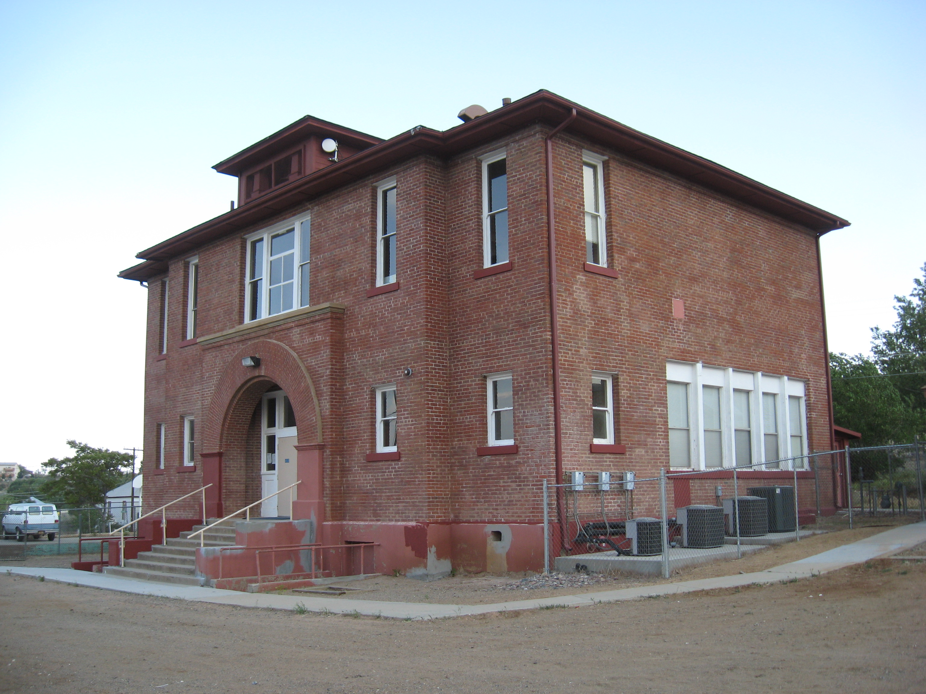 Mayer School, Mayer, AZ (Prescott Area)